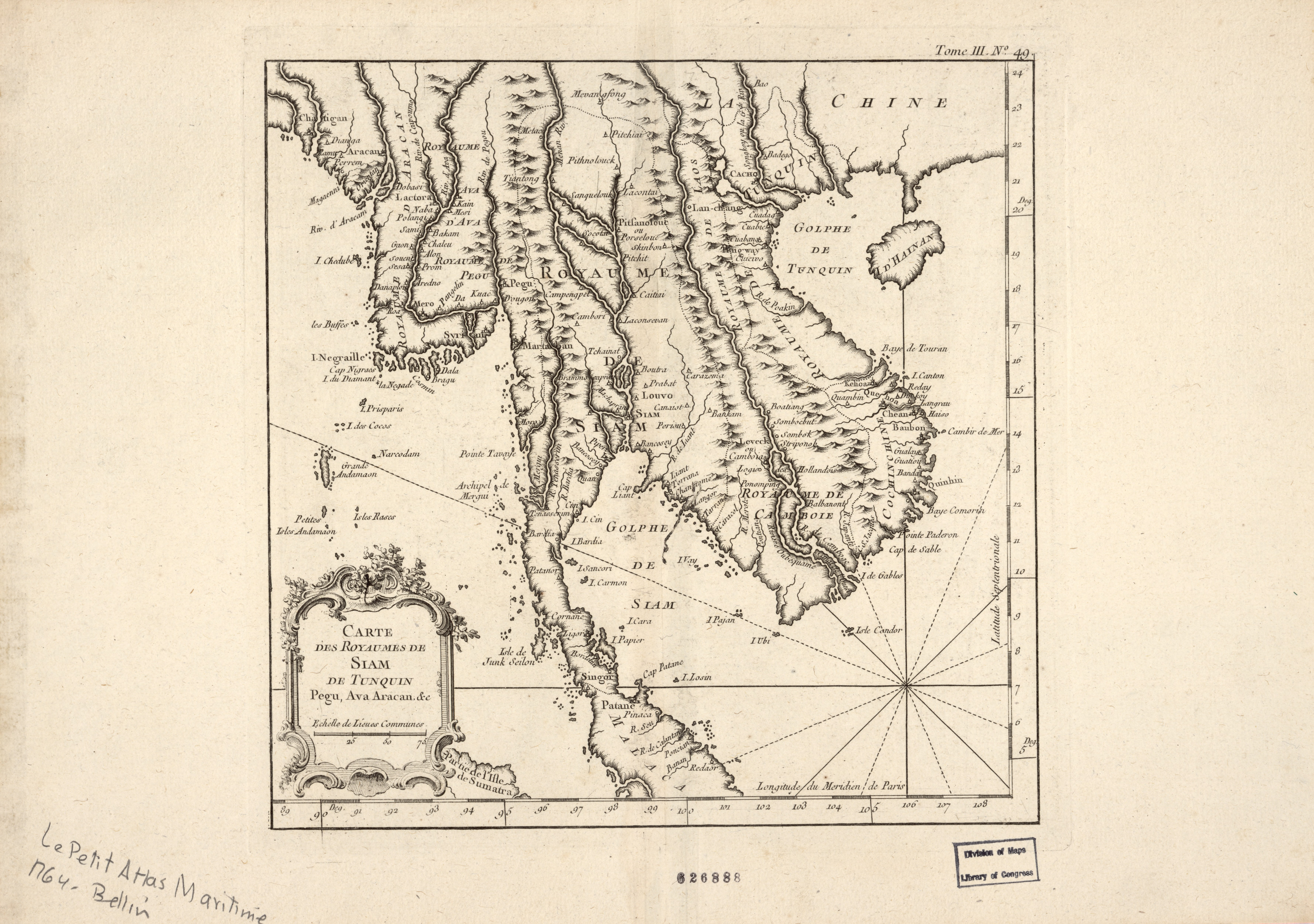 Map of the Kingdoms of Siam, Tunquin, Pegu, Ava Aracan This engraved map, sized 27 x 26 centimeters and scaled ca. 1:9,000,000, is No 49 from the third volume of Bellin's Le Petit Atlas Maritime (Small maritime atlas). It shows the kingdoms of Southeast Asia as they appeared in the mid-18th century, including Ava and Pegu (present-day Burma), Siam (Thailand), Cambodia, and Tonkin (part of present-day Vietnam). Also shown are portions of southern China, including Hainan Island, and the Andaman Islands, now a part of India.